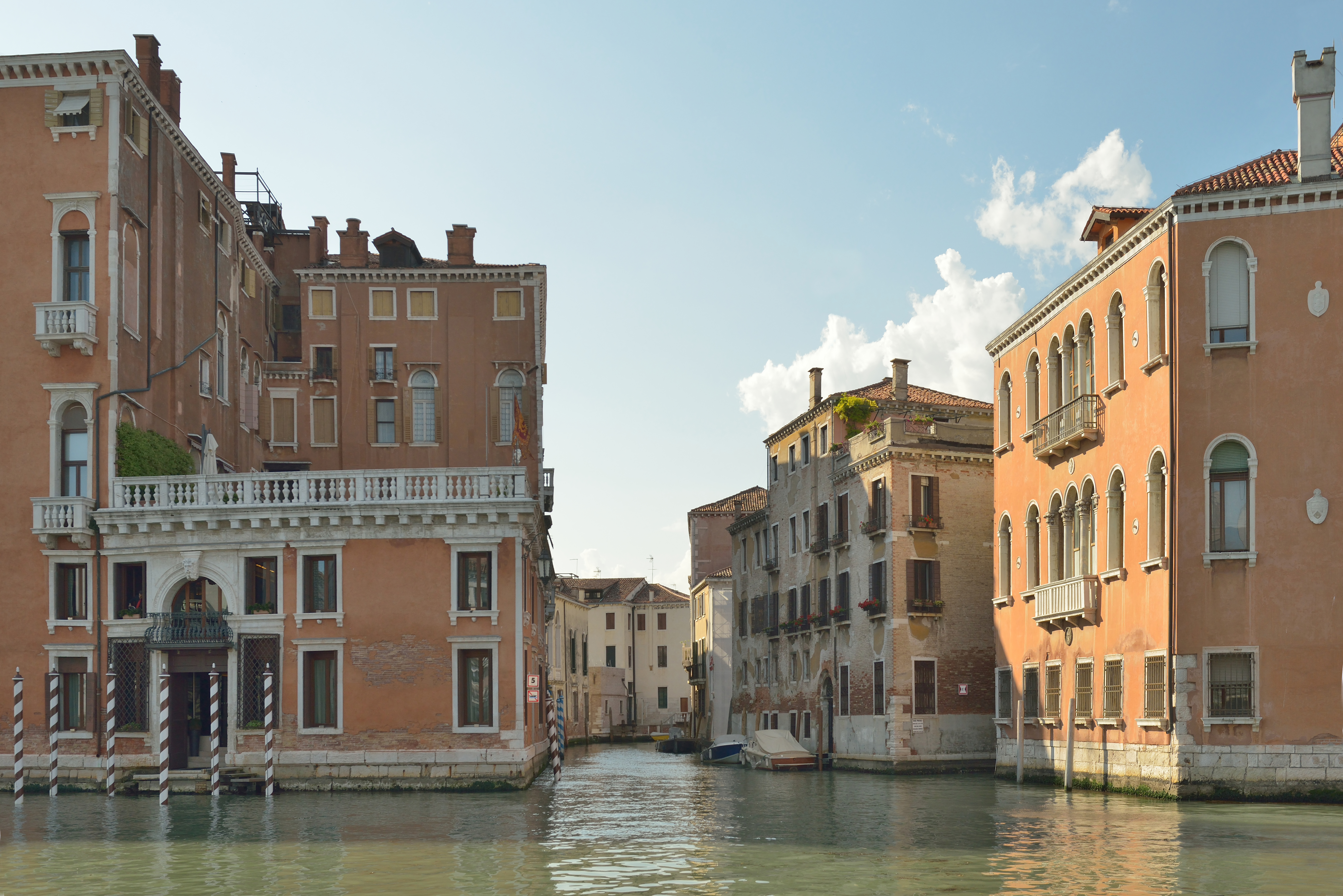 The Palazzo Barbarigo della Terrazza, Rio San Polo and Palazzo Ca' Cappello Layard Carnelutti. A view from the Canal Grande in Venice